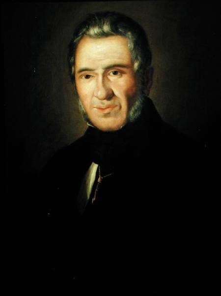 Spanish Politician Agustín Argüelles